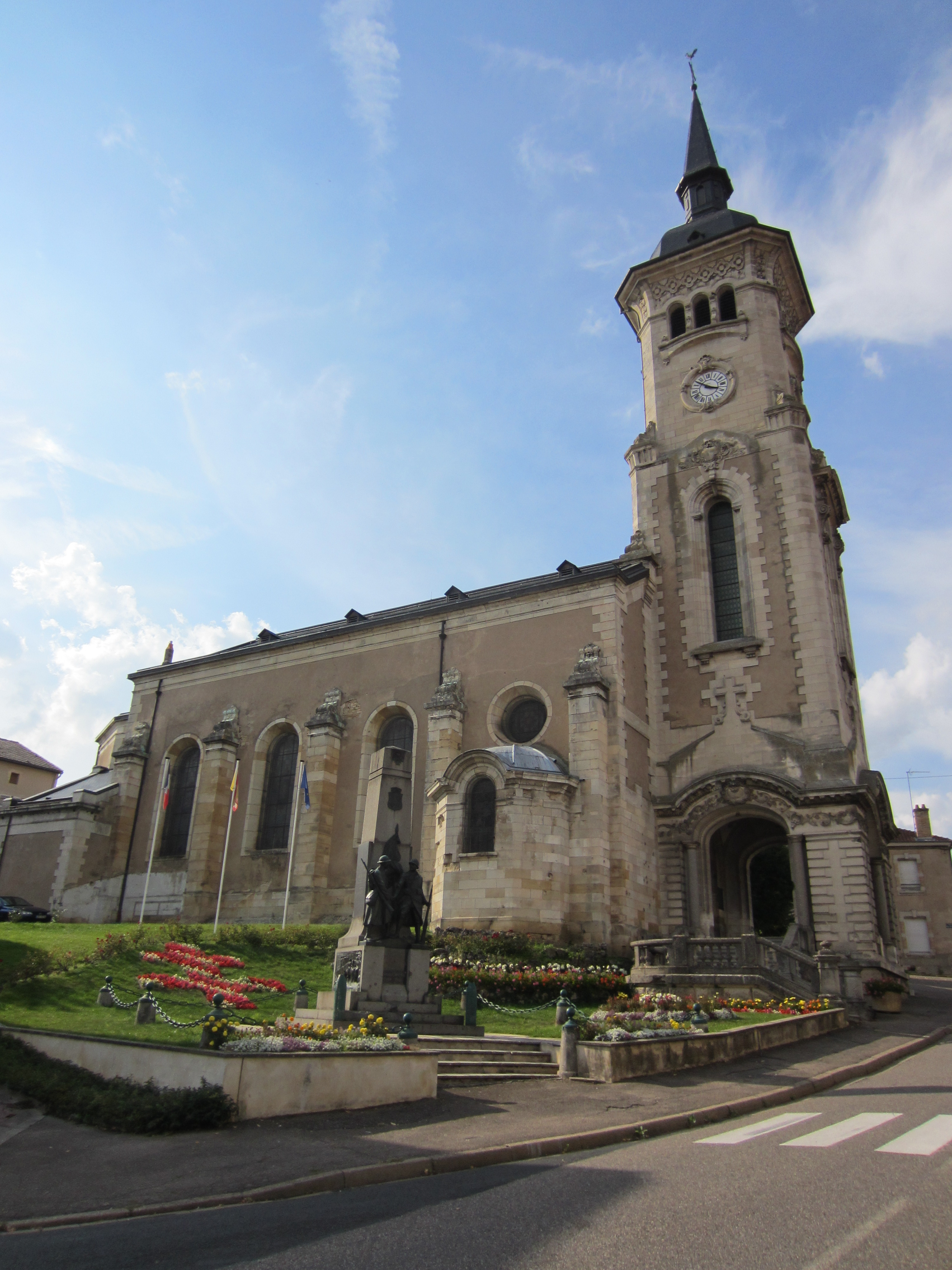 Description eglise Thiaucourt Date30 September 2011Sourcemon appareil photoAuthorAimelaimePermission(Reusing this file) eglise Thiaucourt